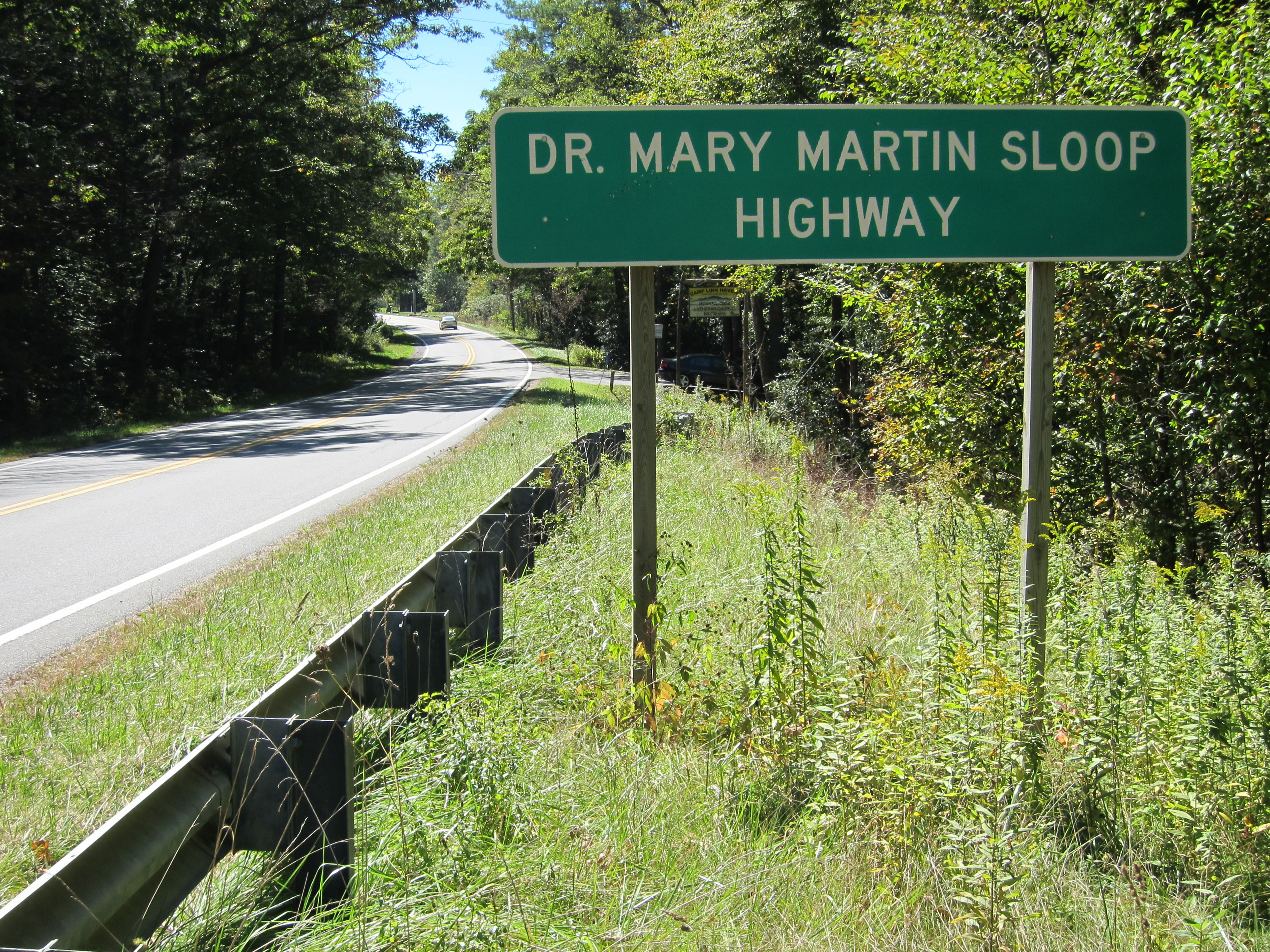 Alternate name of for U.S. Route 221, from Crossnore to Linville; however, most maps and signs still give original road name "Linville Falls Highway."